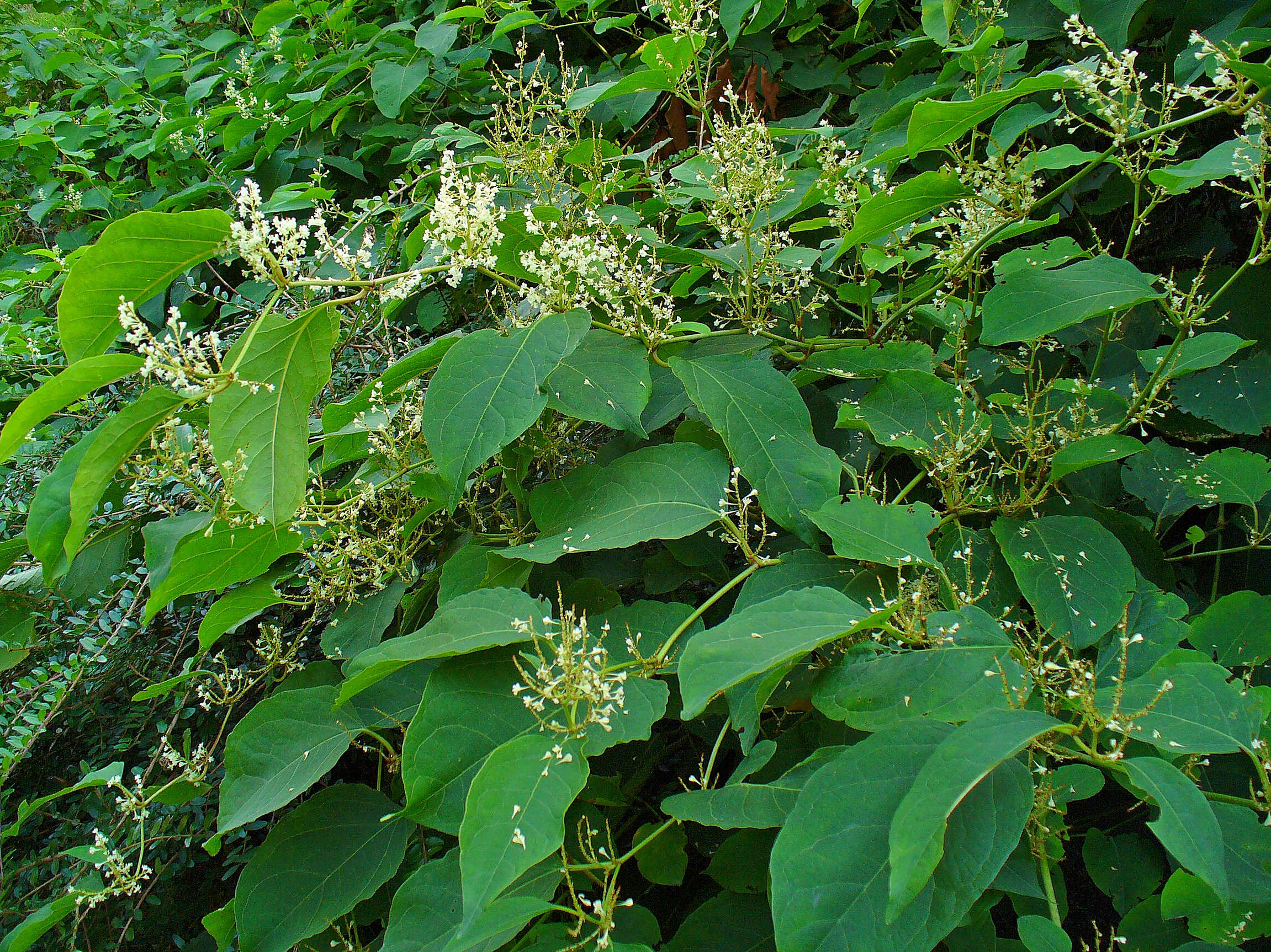 Reynoutria × bohemica, Polygonaceae, Hybrid Knotweed, habitus; Karlsruhe, Germany.